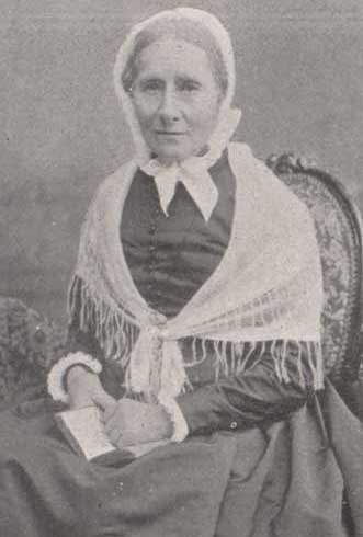 Eliza Wigham (1820-1899) from Edinburgh was the leading light on the Edinburgh Ladies Emancipation Society